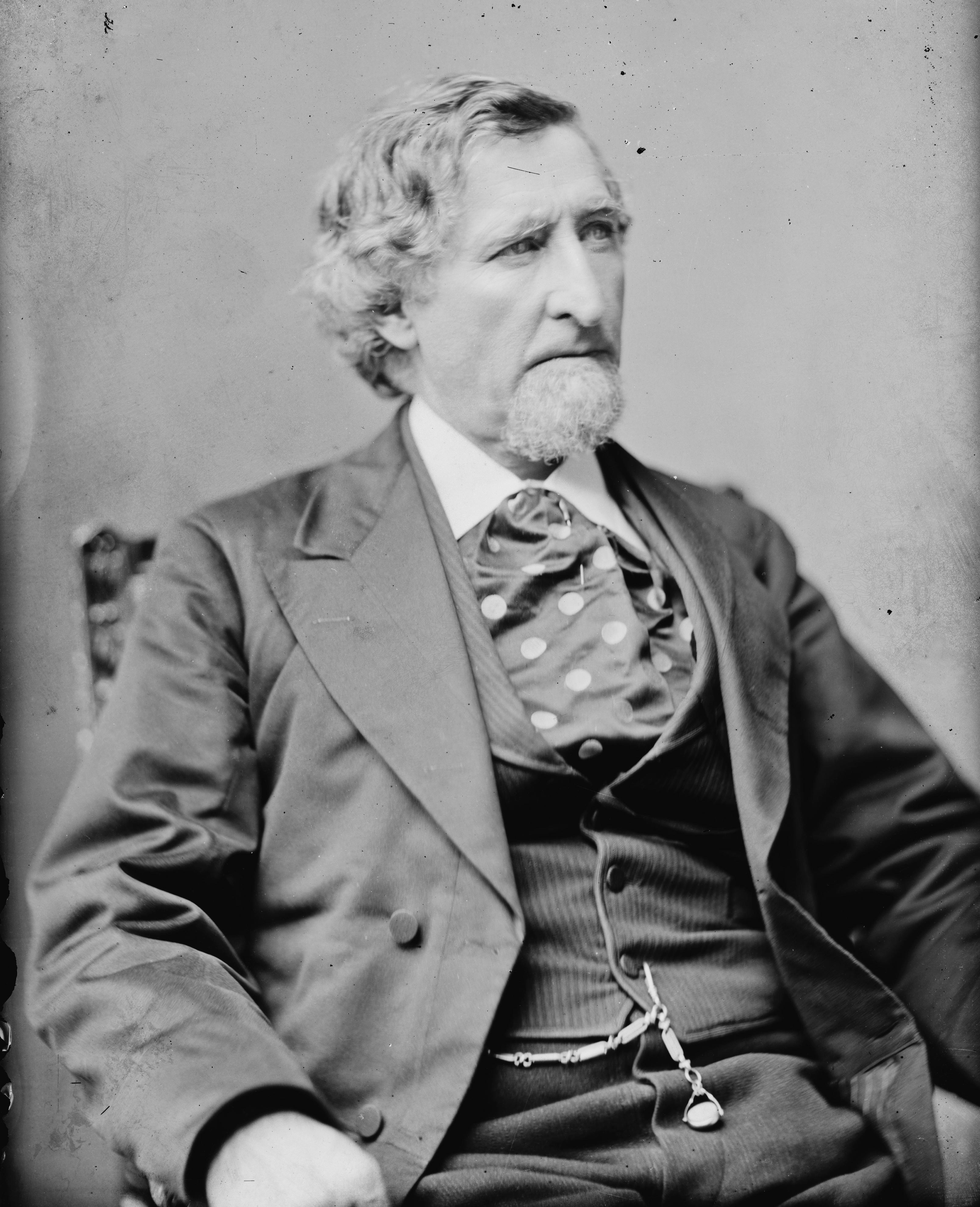 Henry Waldron. Library of Congress description: "Waldron, Hon. Henry of Mich.".